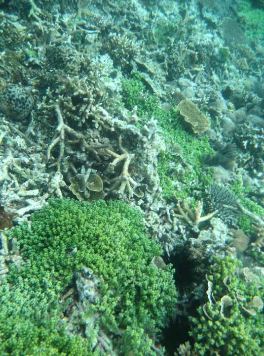 Kepulauan Seribu, DKI Jakarta, Indonesia